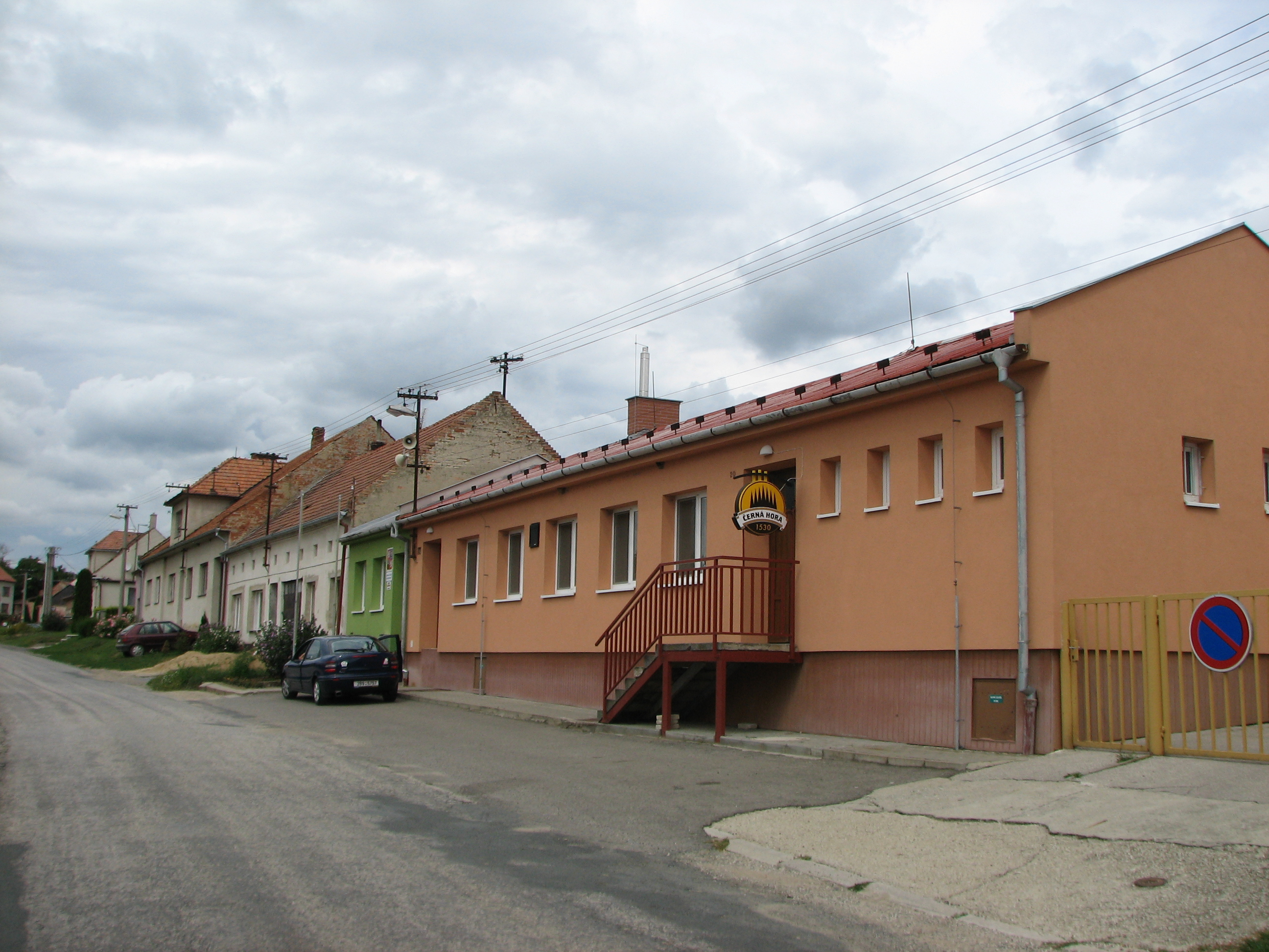 Ostrovánky - restaurant and municipal office